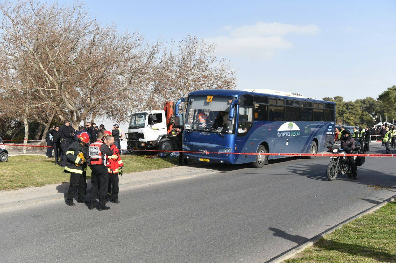 January 8, 2017 Jerusalem truck attack, Dani'el Yanovski street